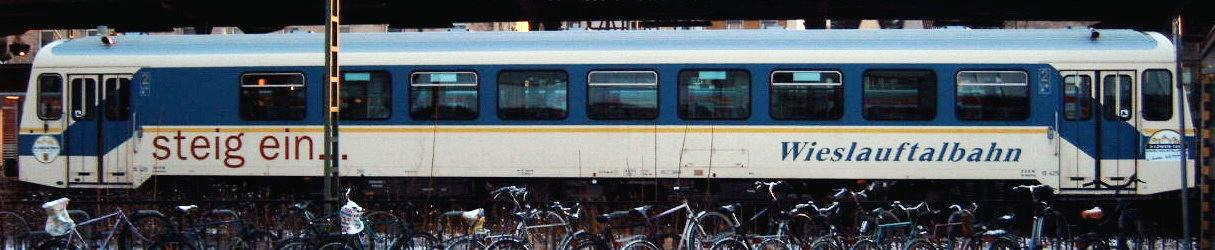 Multiple unit class NE 81 at Schorndorf station in Germany